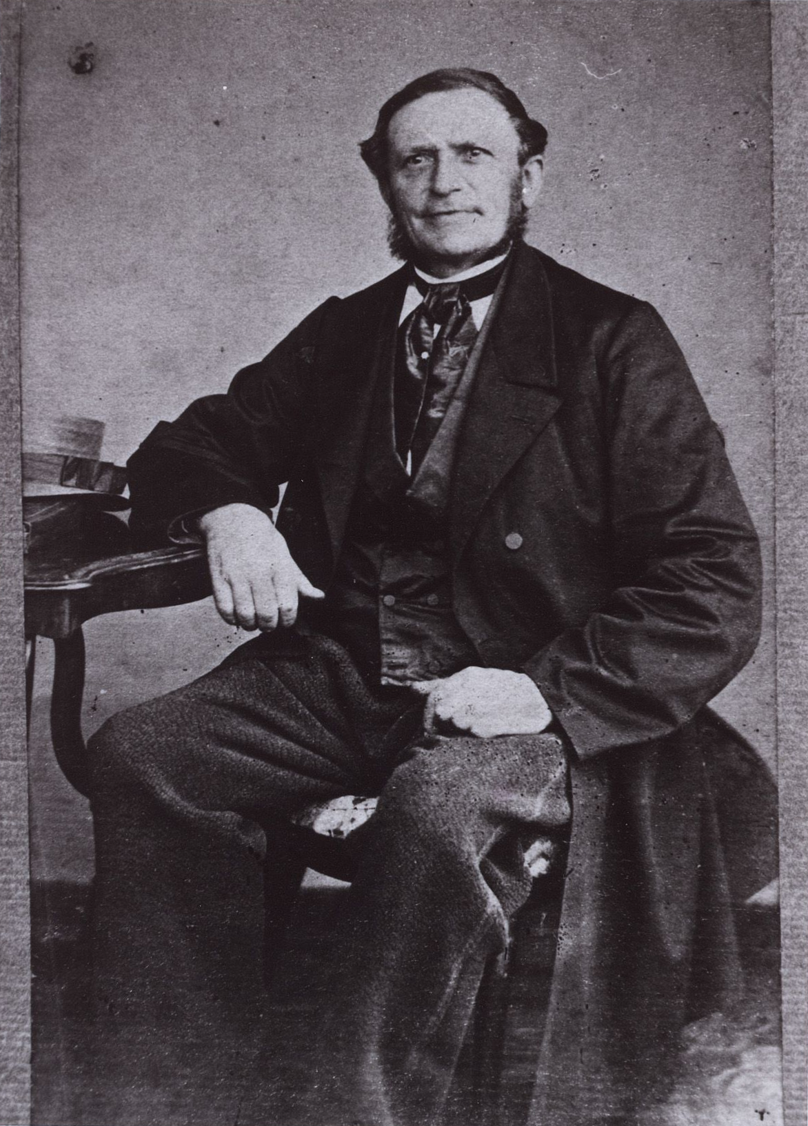 Photograph of Adriaan Goijaerts (1811-1886), contracter and builder in Tilburg (the Netherlands) who build many buildings for William II of the Netherlands.